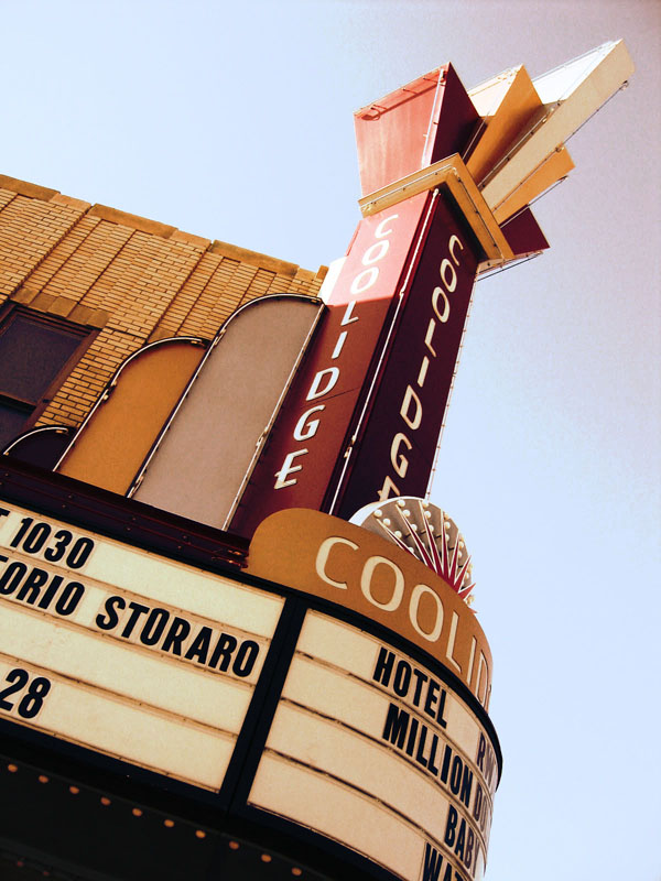 A photo of the Coolidge Theater sign, taken by Greg Kullberg courtesy of